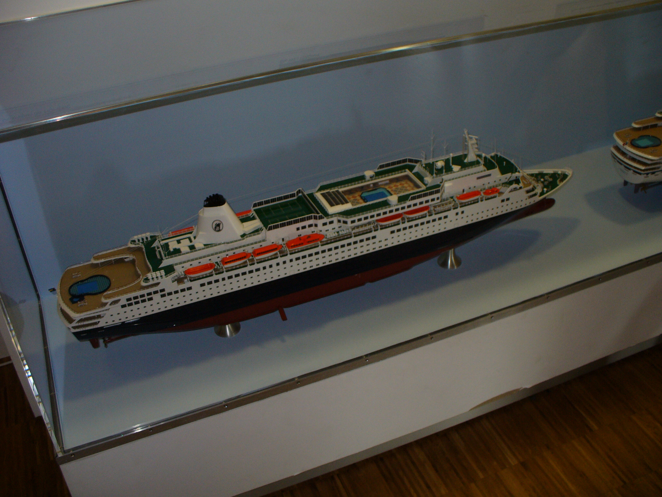 A ship model of the MS Westerdam, located at the Papenburger Werftsmuseum